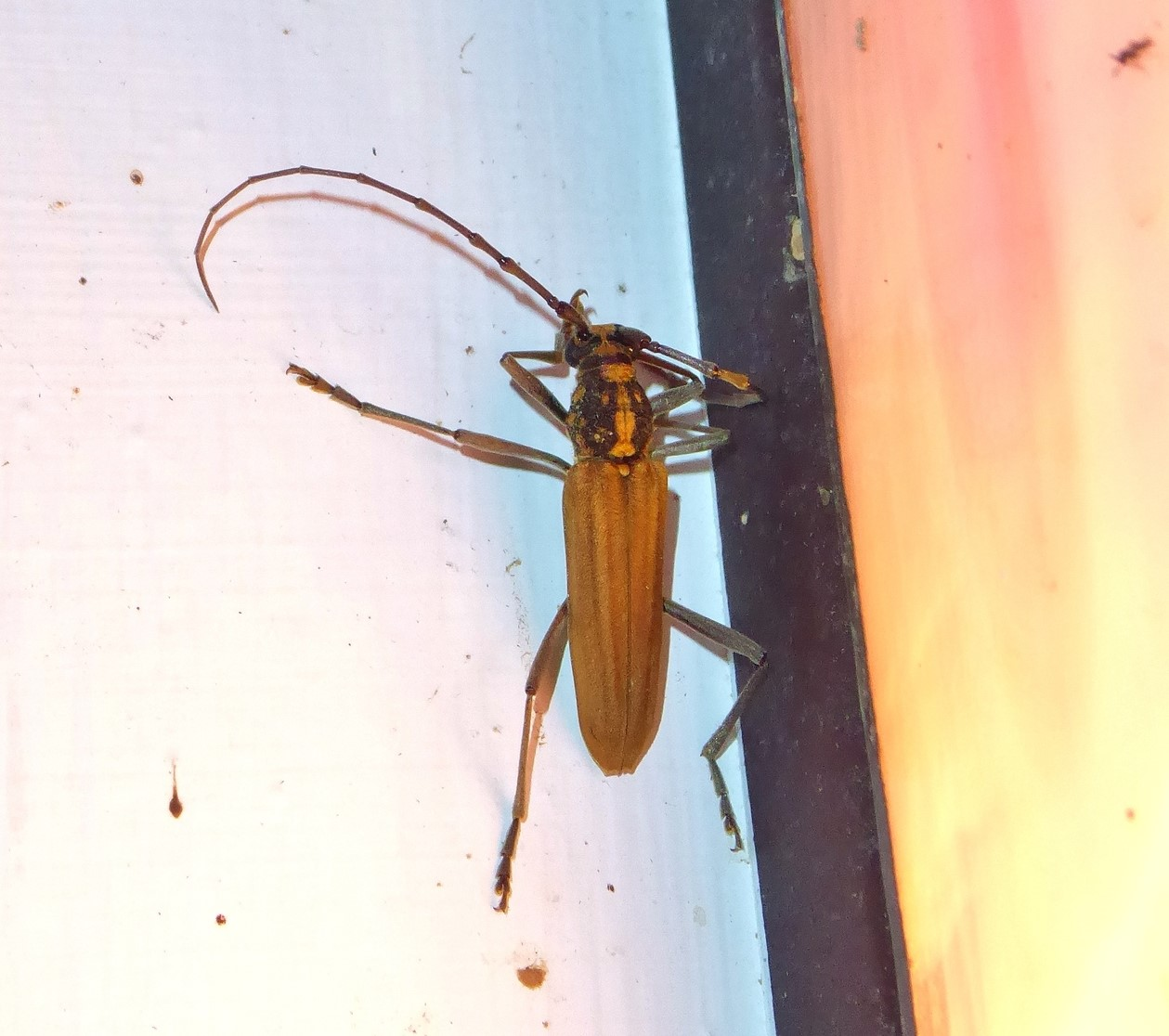 Gibbocerambyx maculicollis. Species of insect.